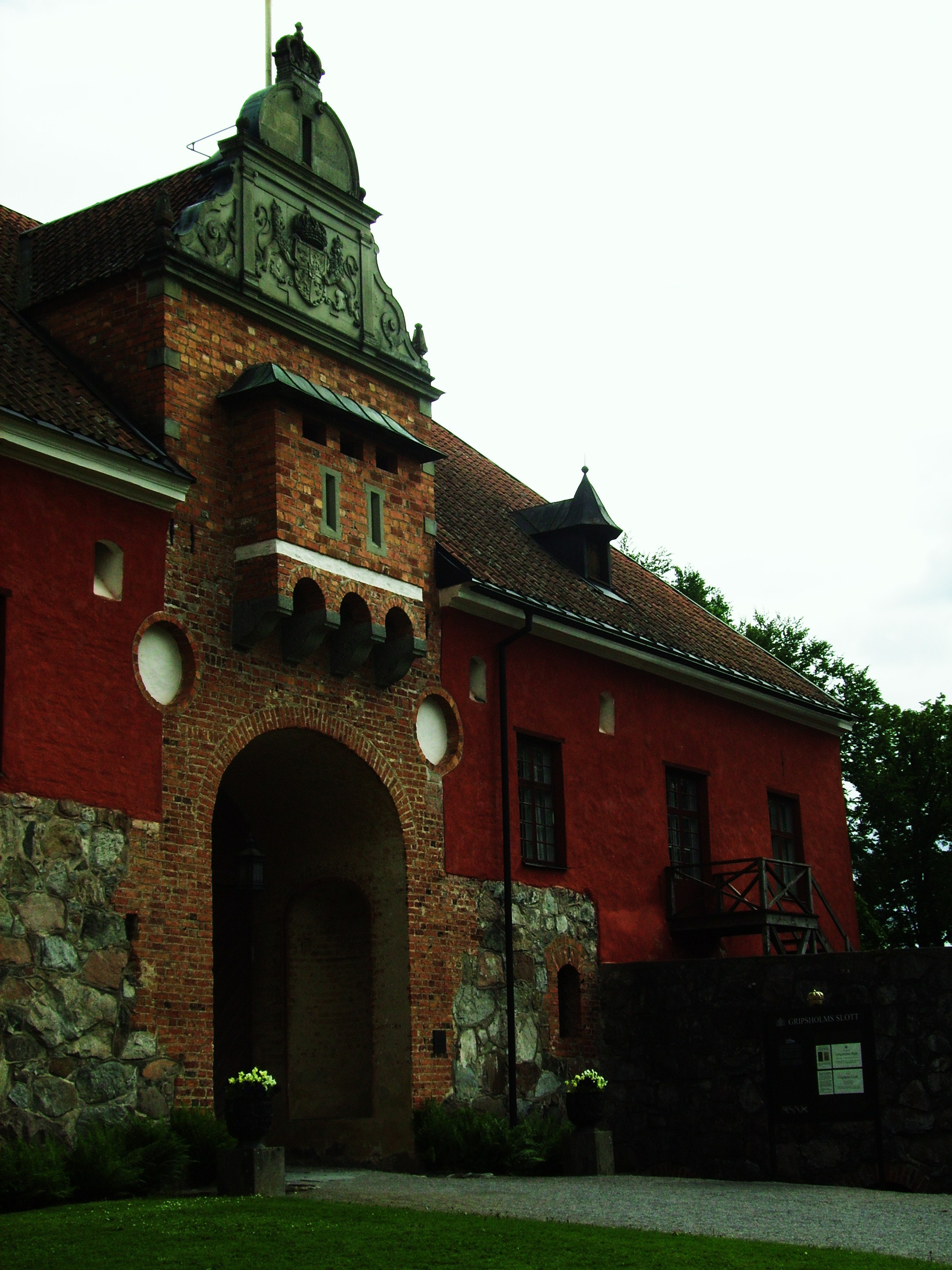 Picture of Gripsholm